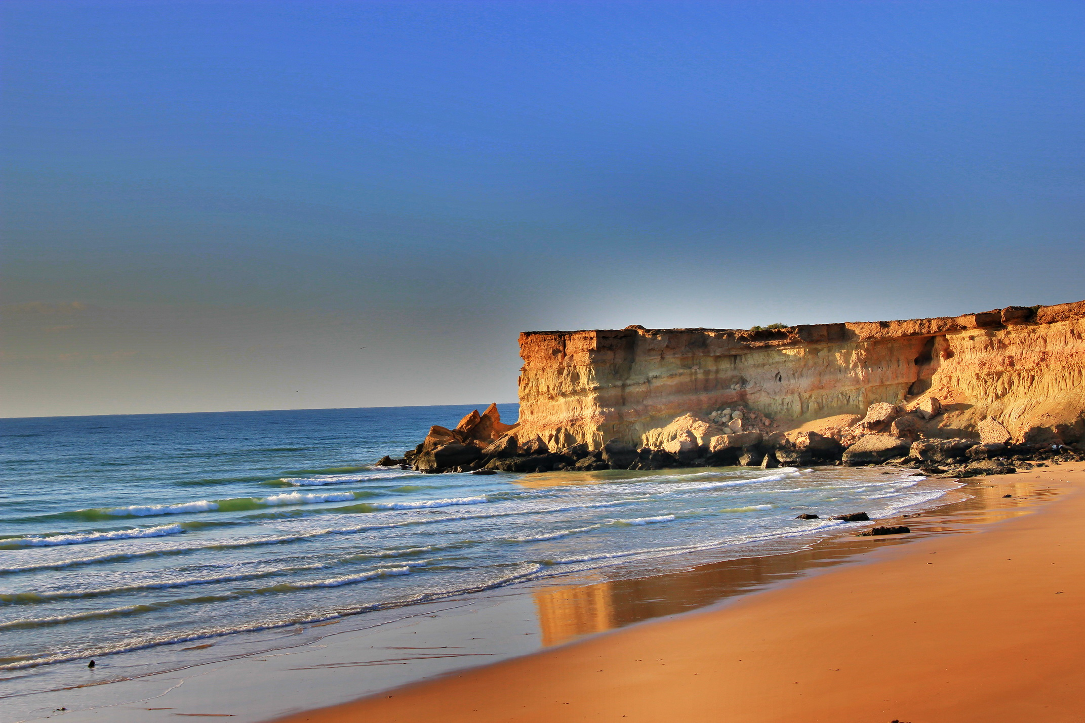 Qeshm island - Coast of Persian gulf - Iran